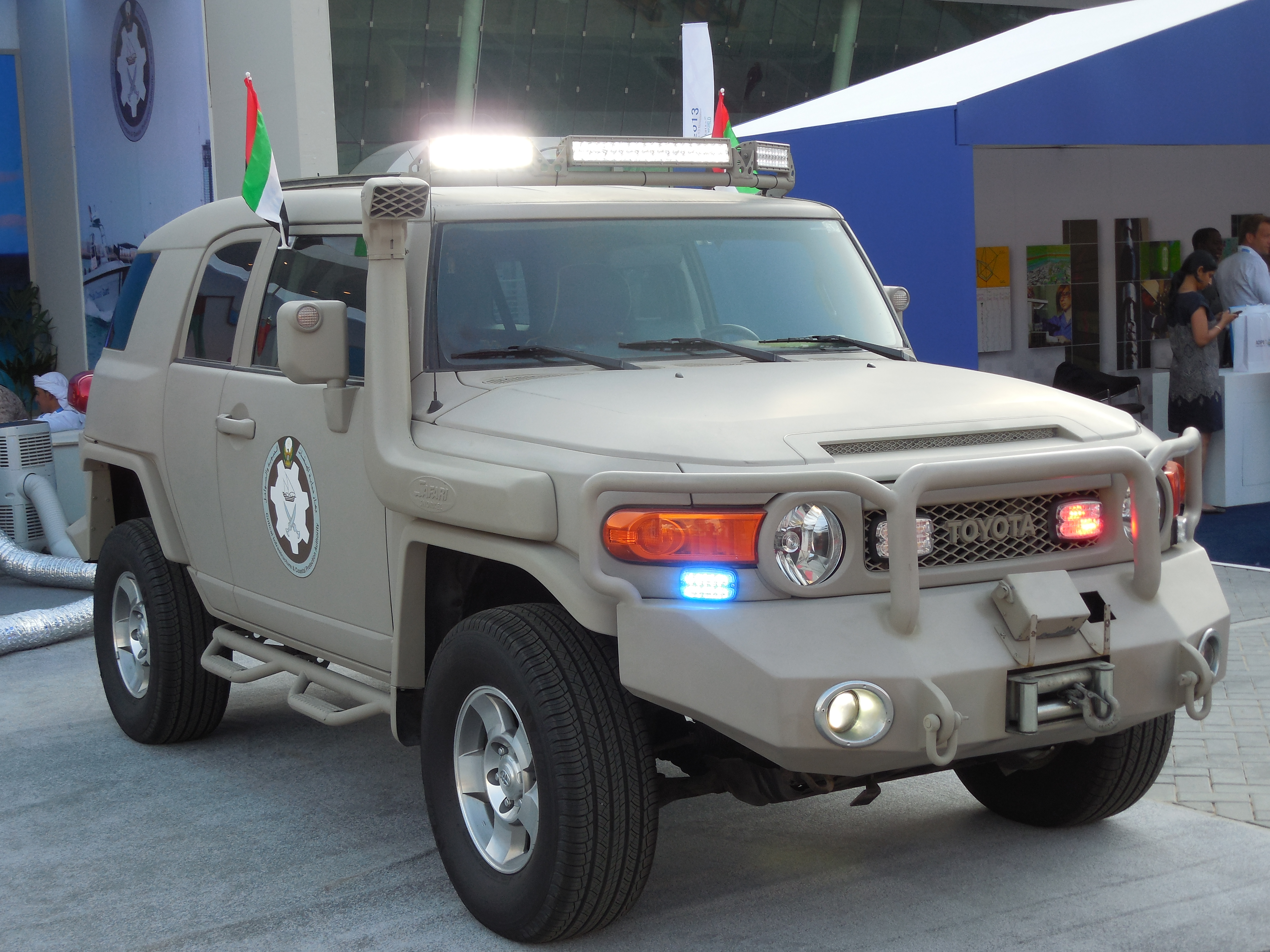 Toyota FJ Cruiser (with an aftermarket Safari Snorkel) of Critical Infrastructure & Coastal Protection Authority Abu Dhabi (CICPA) displayed at ADIPEC 2013 in Abu Dhabi, UAE.